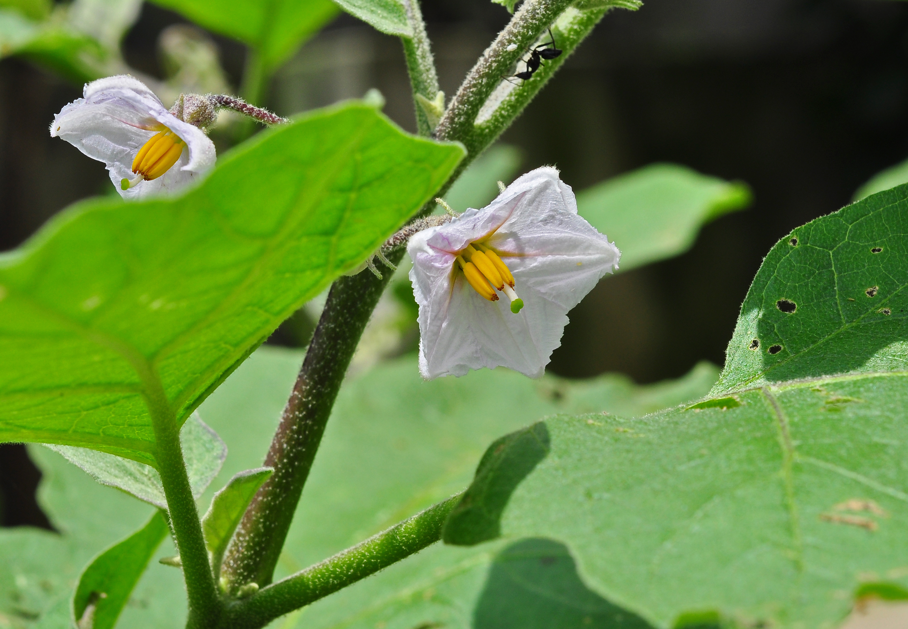 Solanum melongena flower.